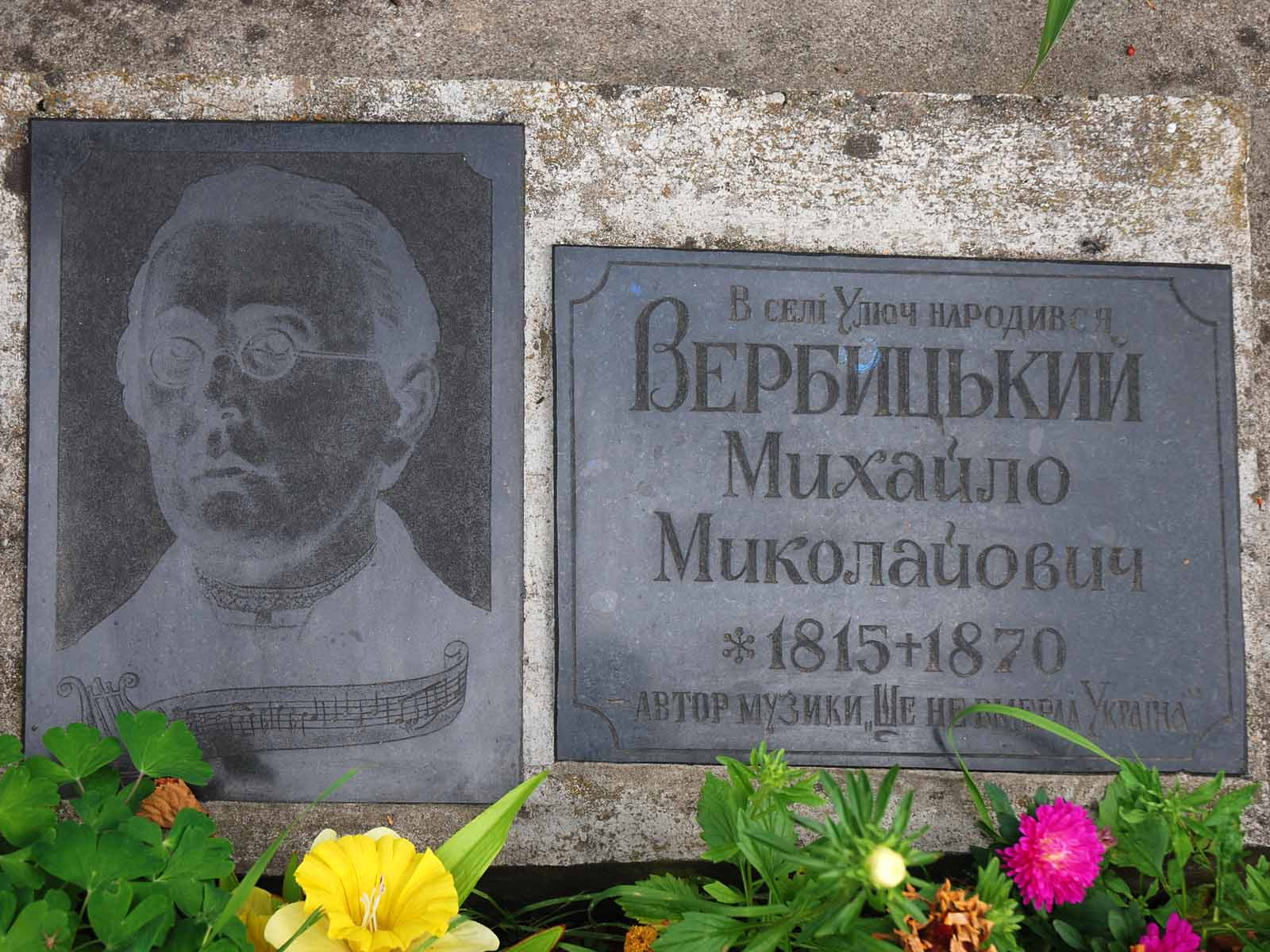 Młyny (Poland), the epitaph of Werbycki – the author of the Ukrainian national anthem.